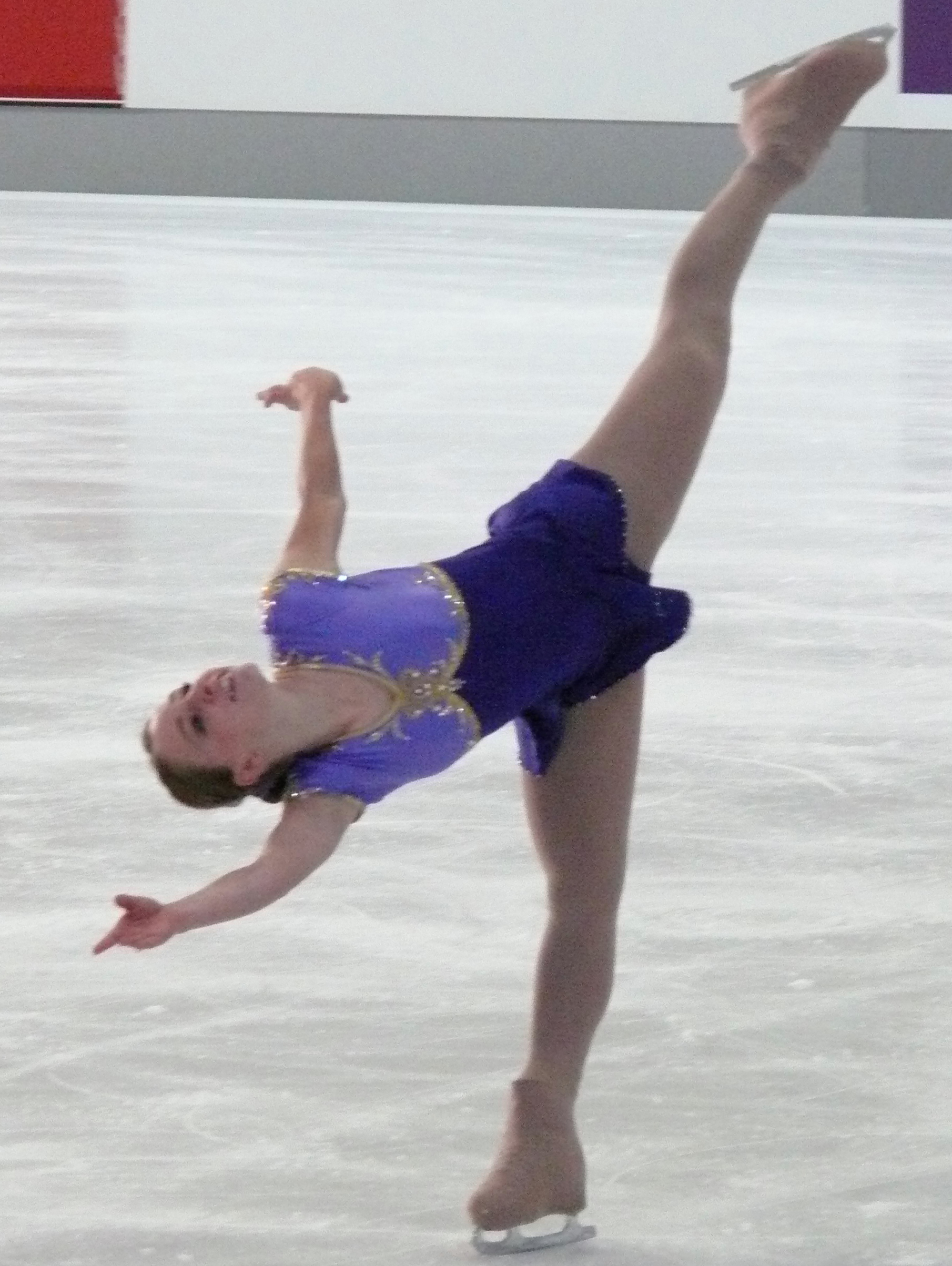 Chrissy Hughes (USA) at her free program at the Nebelhorntrophy 2008 in Oberstdorf, Germany